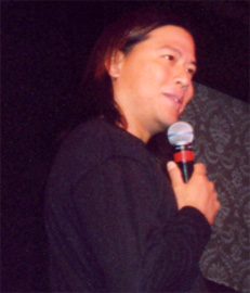 Garrett Wang at the Toronto Trek convention